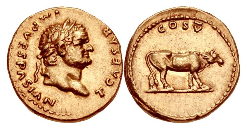 TITUS as Caesar, AD 69-79.AV Aureus (19mm, 7.29 g, 6h). Rome mint. Struck under Vespasian, AD 76.T CAESAR IMP VESPASIAN, laureate head rightCOS V, heifer standing right. RIC II 857 (Vespasian); Calicó 733; NAC 49, 162 (same rev. die). Near EF, toned. Bold strike on both sides.